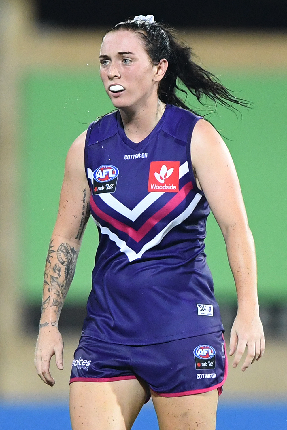 Sabreena Duffy of Fremantle during the 2019 AFL Women's practice match between the Adelaide Football Club and Fremantle Football Club at TIO Stadium on January 19, 2019 in Darwin Australia.